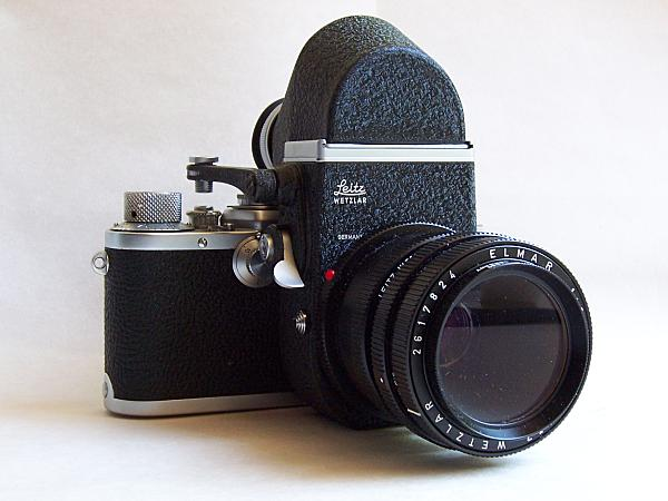 The Leica IIIf (1950) rangefinder, equipped with Leica Visoflex II (1960) reflex housing in Leica Thread Mount (LTM), with 65mm f3.5 Elmar=V. The 65mm Elmar was the shortest focal length lens usable on the Visoflex system with focus at infinity. Other lenses designed for the Visoflex have focal lengths of 180mm (rare), 200mm, 280mm, 400mm, 560mm and 800mm. Also, certain 90mm and 135mm rangefinder lenses, given the correct adapter, could be used on the Visoflex as SLR lenses. Finally, every lens usable directly or via adapter could also be used on a Leicaflex or R-series SLR camera via adapter. Photographed by: Rei Shinozuka, 9-11-2005, Kodak DX7440, GIMP photo software.